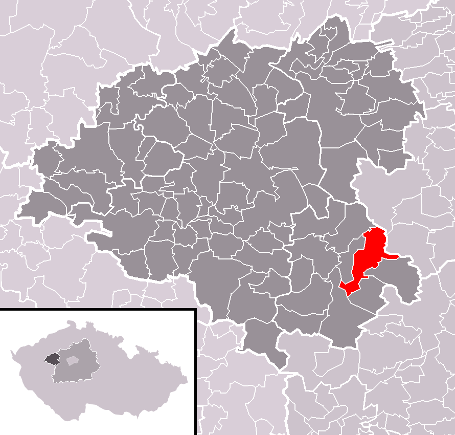 Location of Zbečno municipality within Rakovník District and (identical) administrative area of Rakovník as a Municipality with Extended Competence.